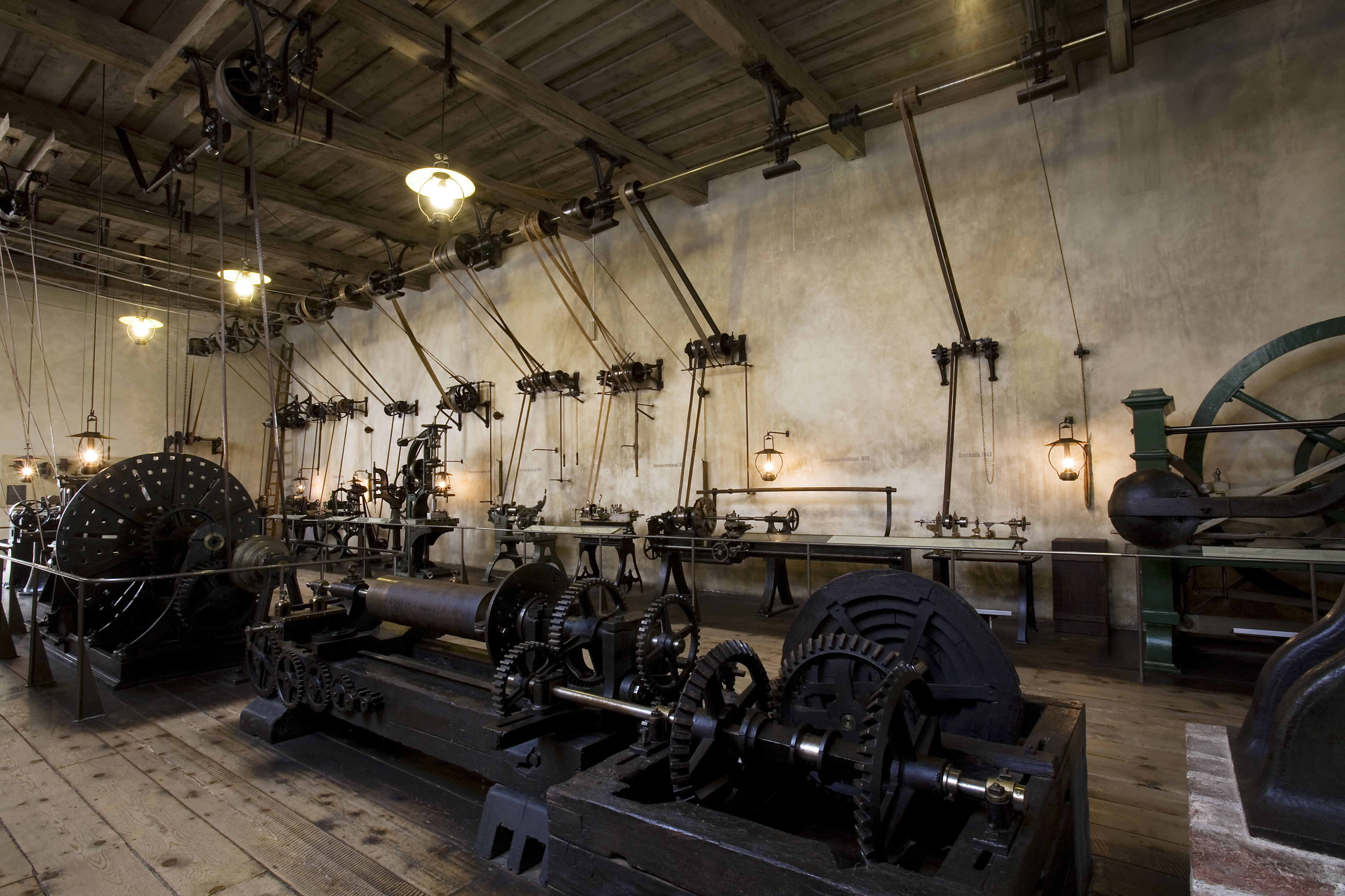 Belt drive machine, 19th and early 20th century tools in a workshop, Deutsches Museum, Munich, Germany